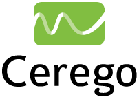 Cerego Logo